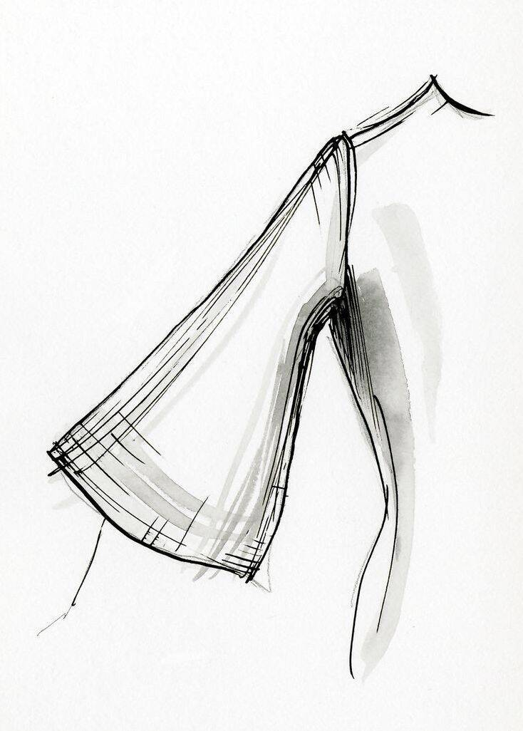 The description of the concept in this drawing is: Half- or three-quarter-length funnel-shaped sleeves that flare at the bottom to resemble a pagoda roof; fashionable especially during the third quarter of the 19th century in Western cultures. (AAT)